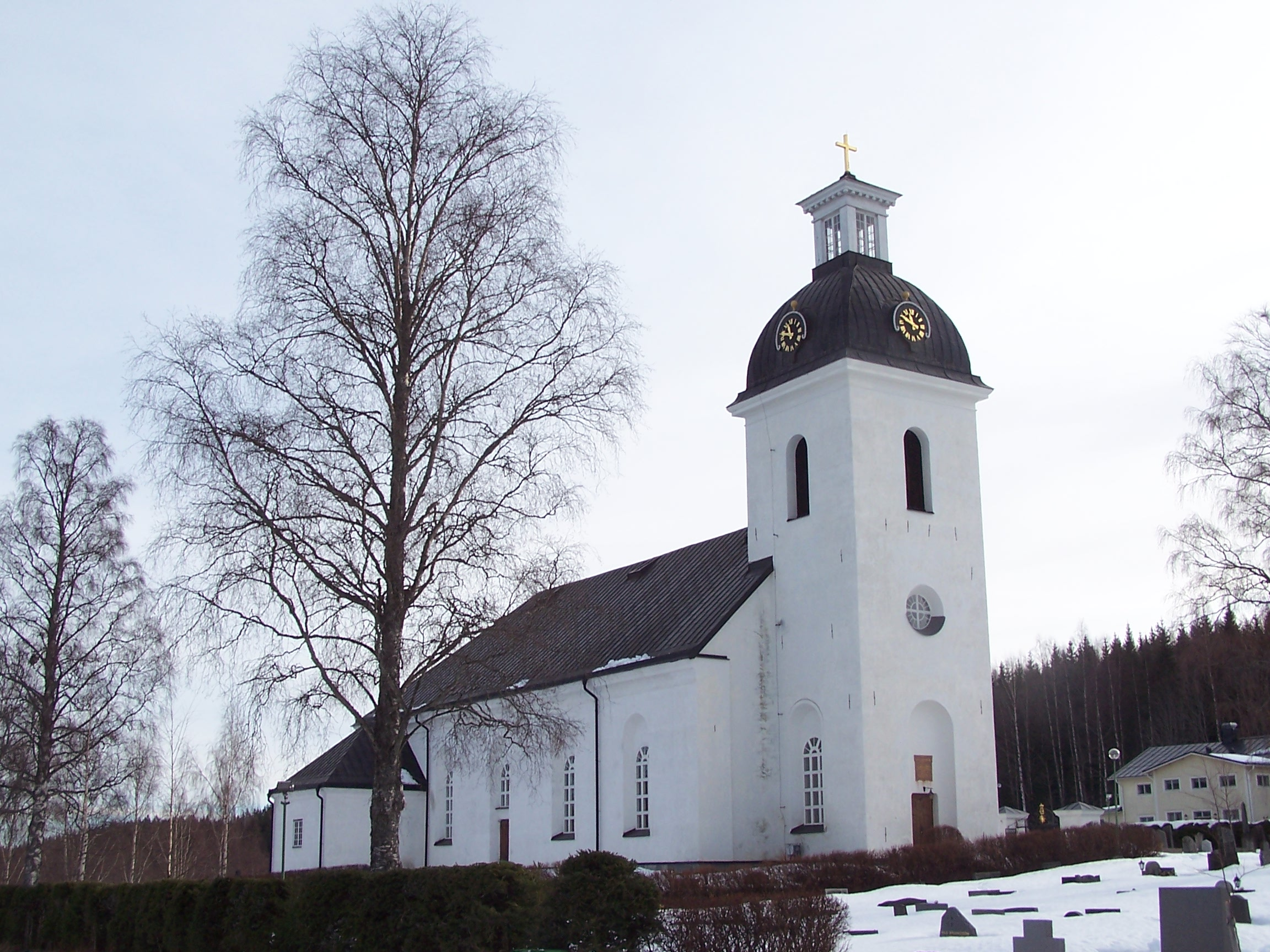 Stigsjö church west of Härnösand, Sweden